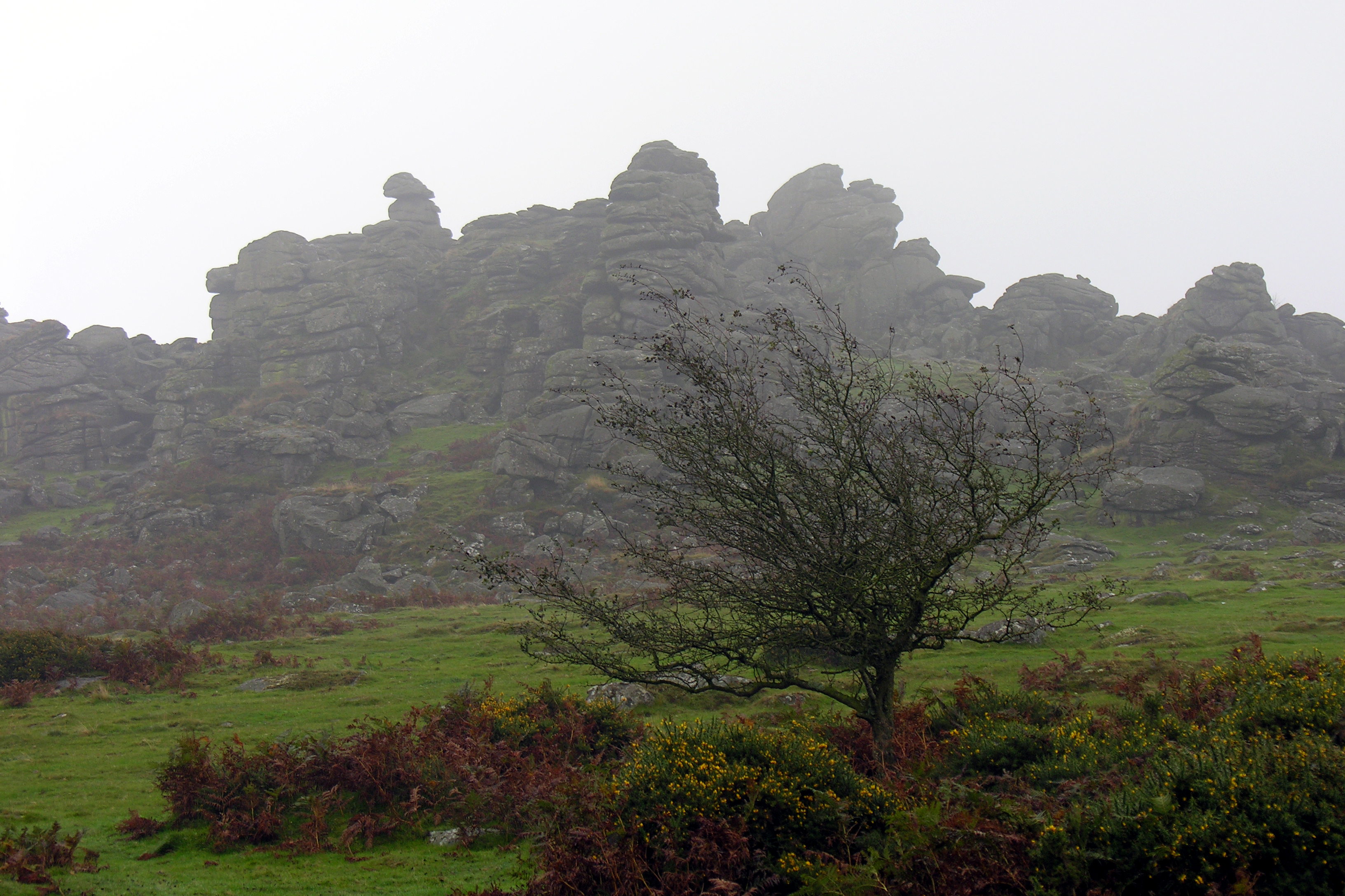 Hound Tor, Dartmoor, Devon, England.